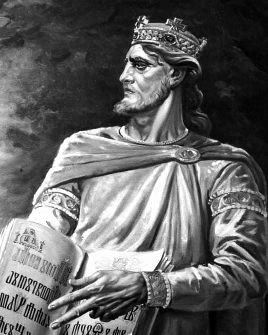 King Demetrius Sunimirio of Croatia (crop)